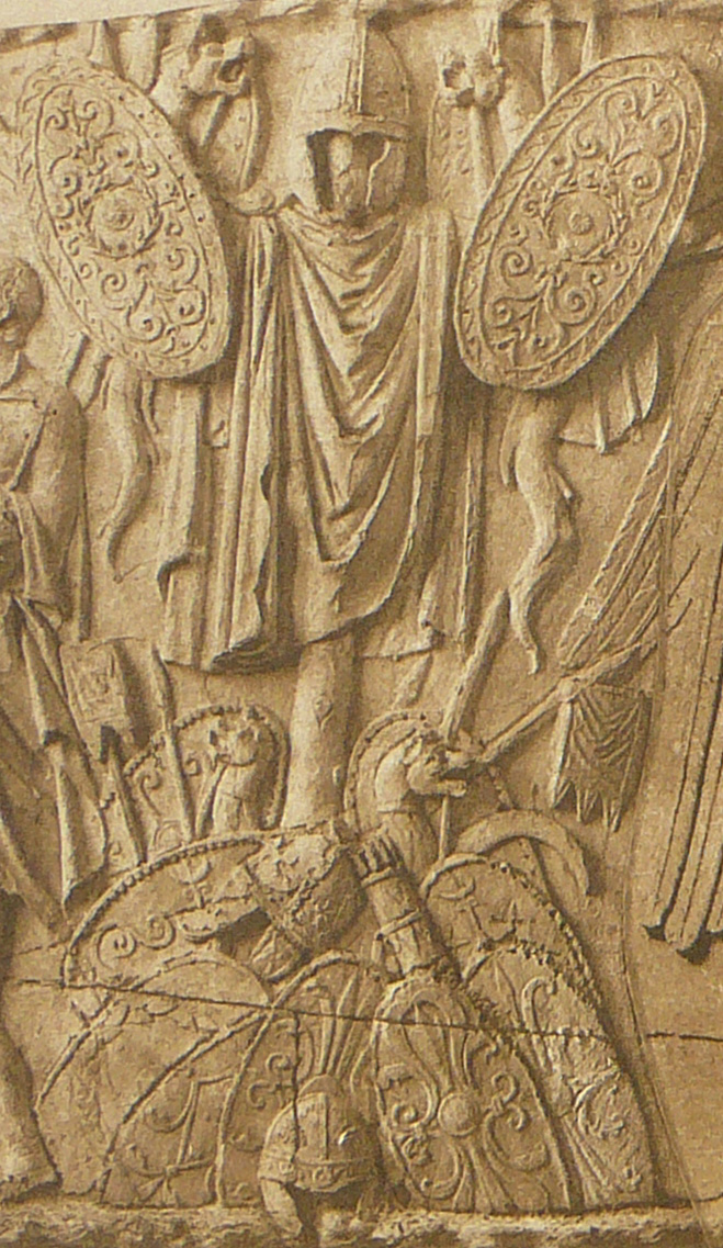 Dacian armour, helmets, shields and weapons as Roman trophies